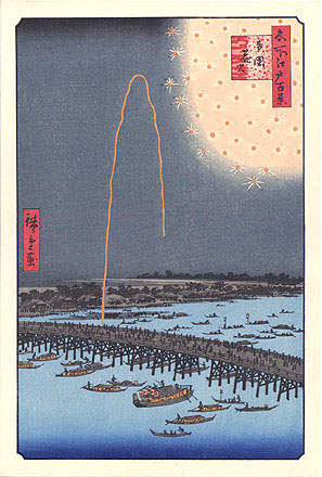 98. Fireworks at Ryogoku/ From One Hundred Famous Views of Edo